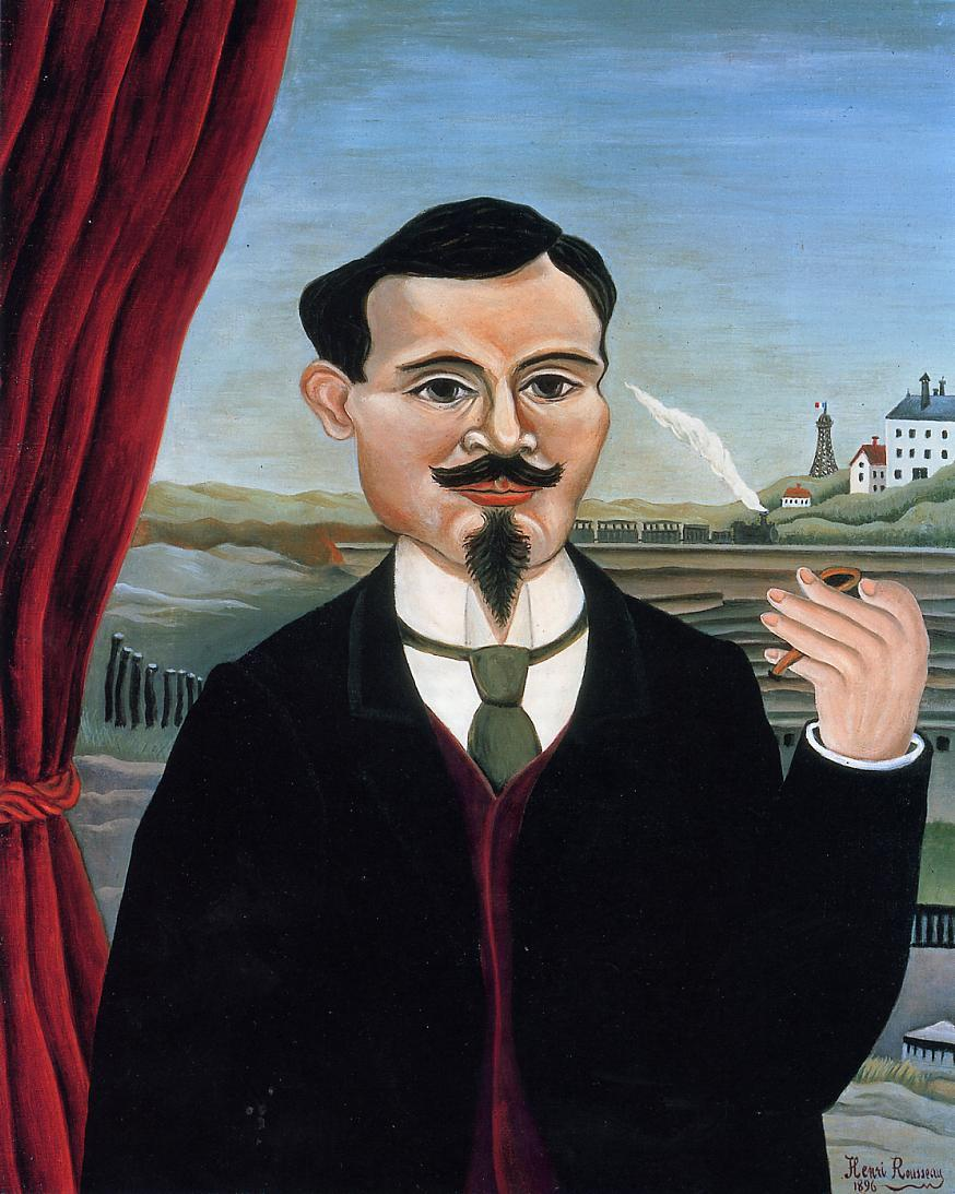 Faithful reproduction of PD image to illustrate relevant Wiki articles. Henri Rousseau died in 1910.